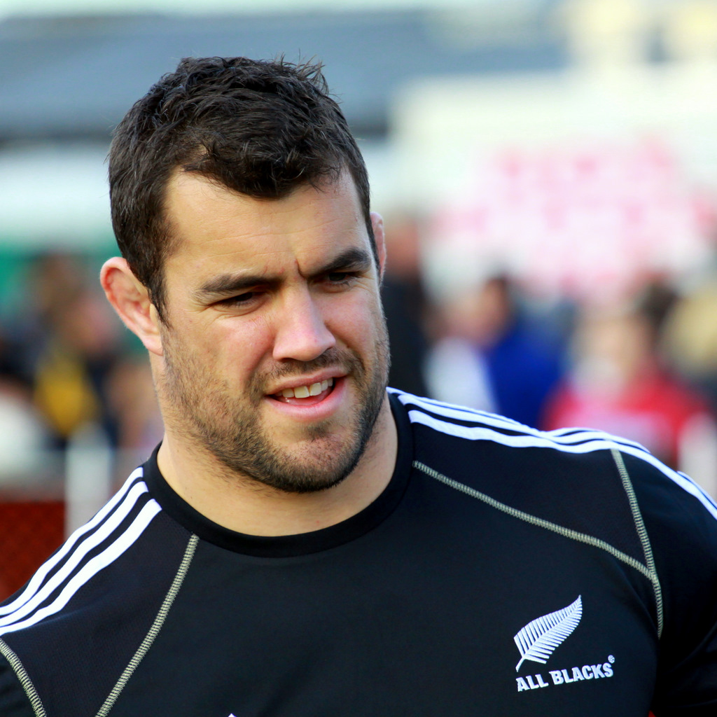 New Zealand rugby union player Corey Flynn and the rest of the All Blacks visit Christchurch during the Rugby World Cup.